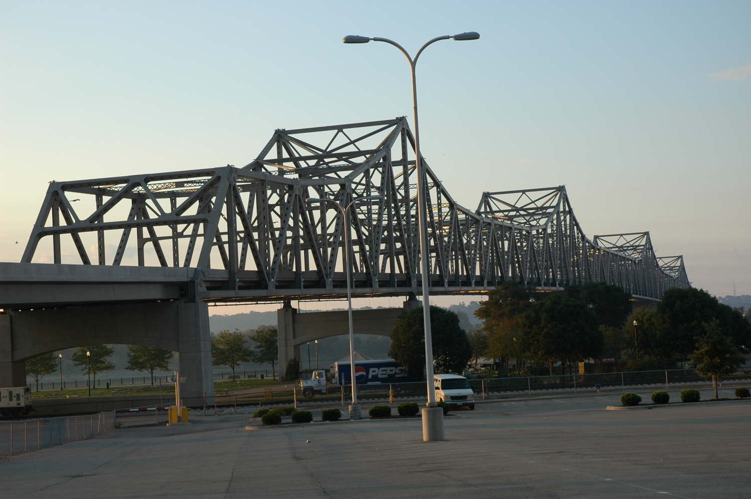 I am the author of this work.